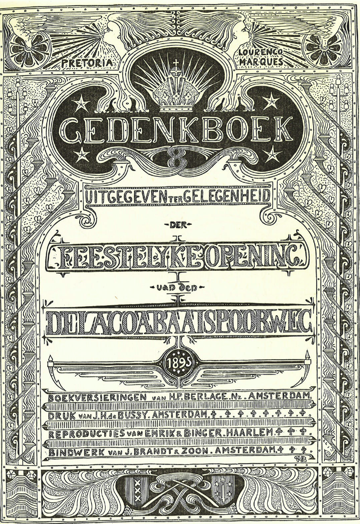 Frontispiece of the book published to commemorate the opening of the Netherlands-South African Railway Company's (NZASM) Pretoria - Delagoabaai (Delagoa Bay, now called Maputo Bay) Railway on 1 January 1895. The book is: Berlage, Hendrik Petrus. (1895). Gedenkboek uitgegeven ter gelegenheid der feestelijke opening van den Delagoabaaispoorweg 1895. Amsterdam, Nederlandsche Zuid-Afrikaansche spoorwegmaatschappy.